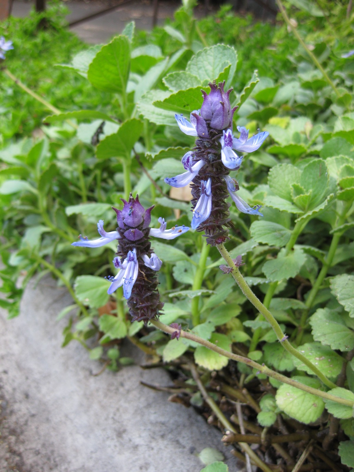 Photographed at the Royal Botanic Gardens Melbourne (Australia) in December